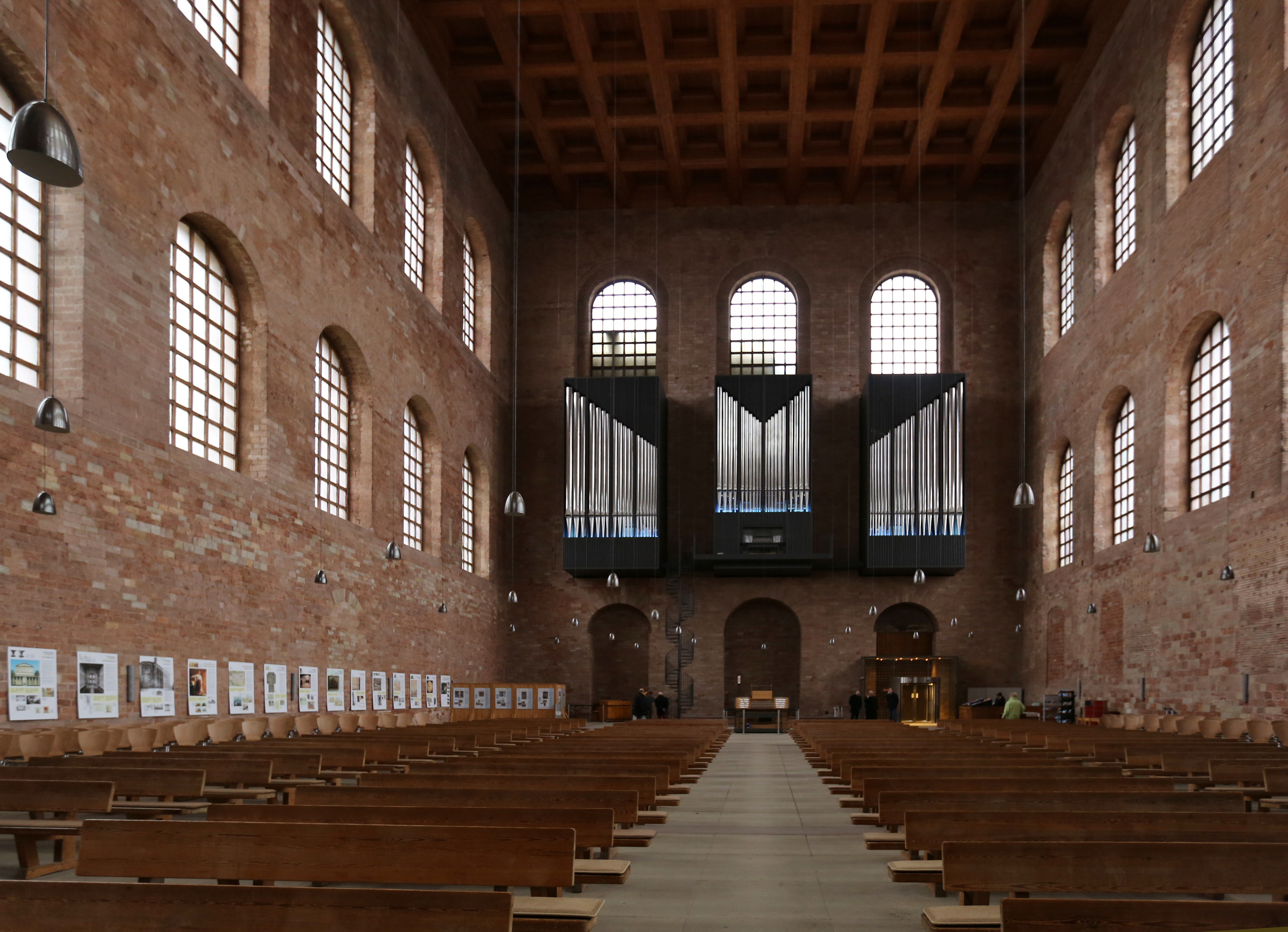 The Basilica of Constantine was built at the beginning of the 4th century. Today (interior view) used as a Evangelical Church in Trier, Rhineland-Palatinate, Germany